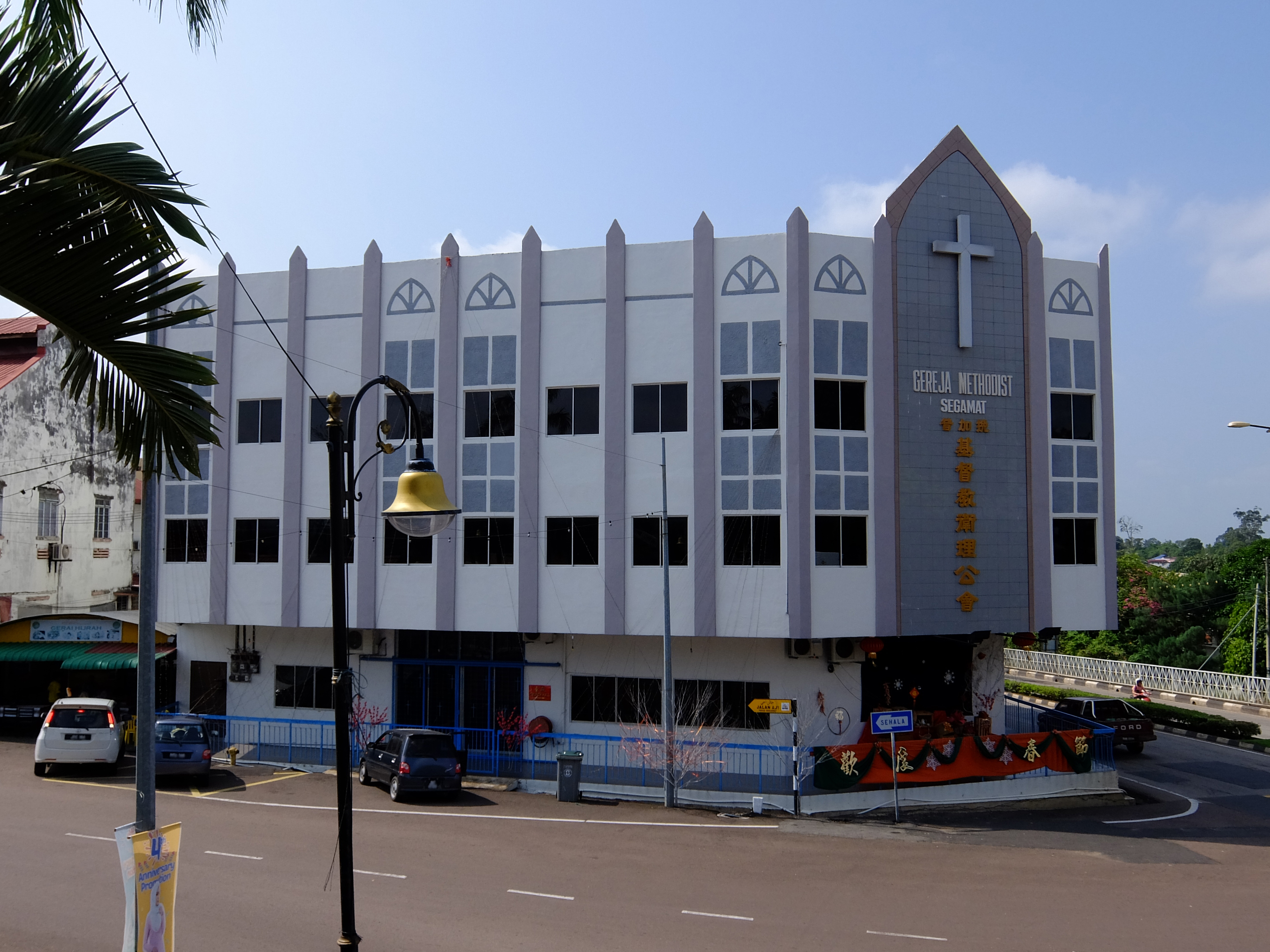 Segamat Methodist Church, Segamat, Johor, Malaysia